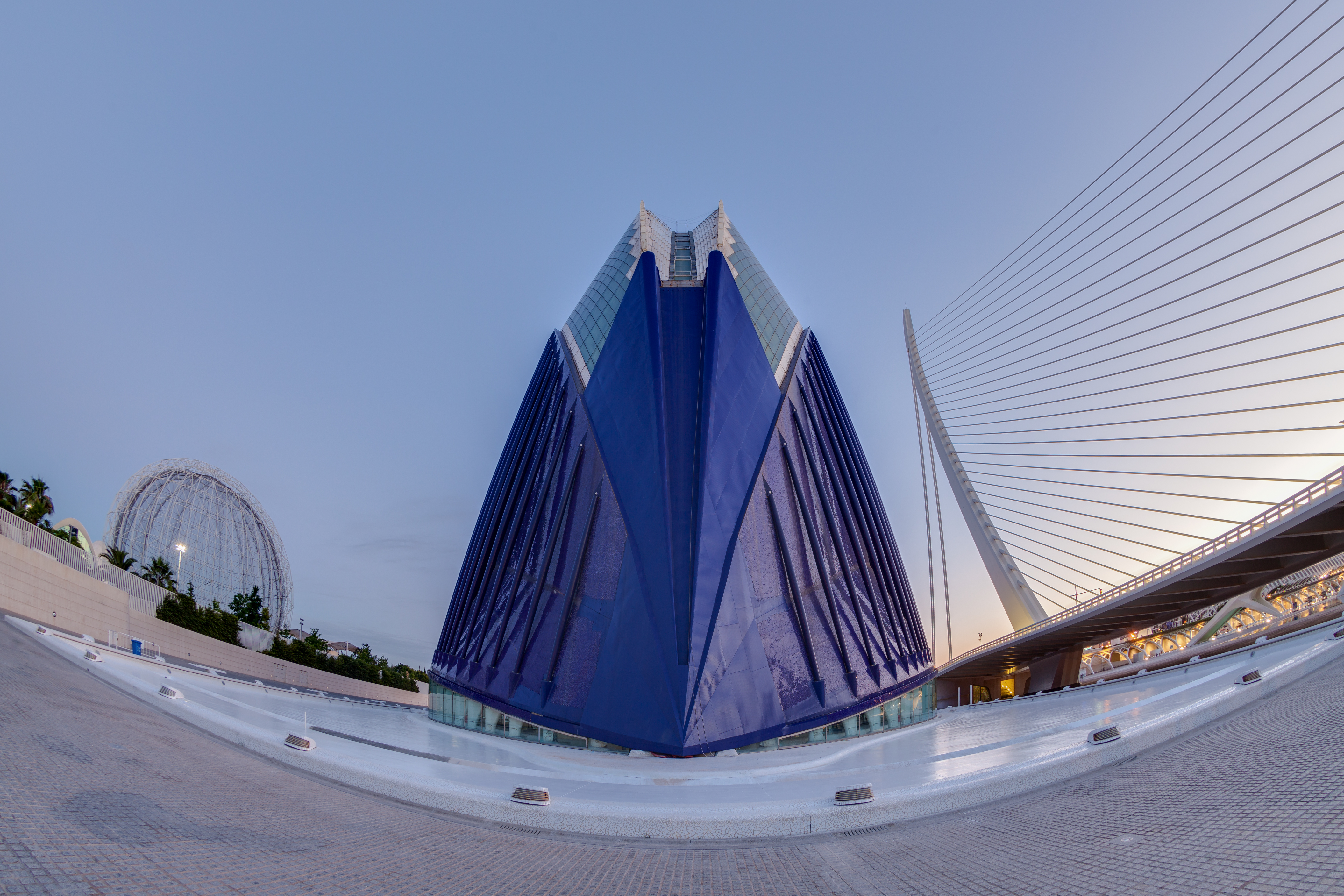 The Agora, City of Arts and Sciences, Valencia, Spain